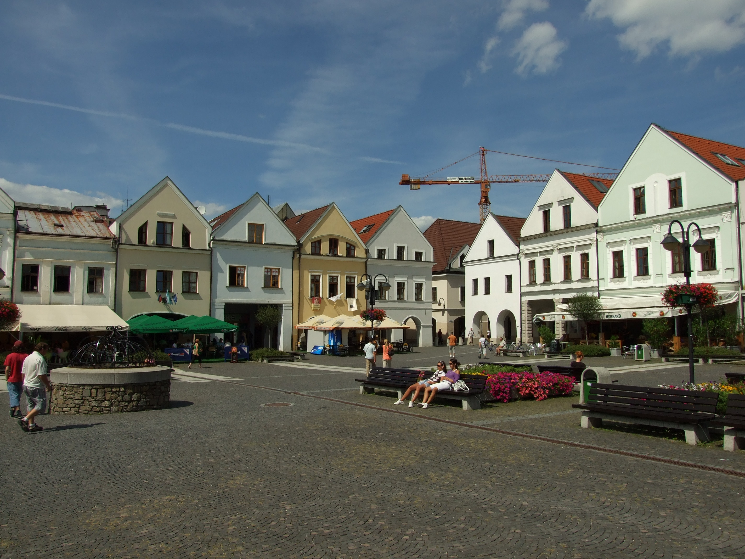 Historic town centre of Žilina, Žilinský Region, SKhelp